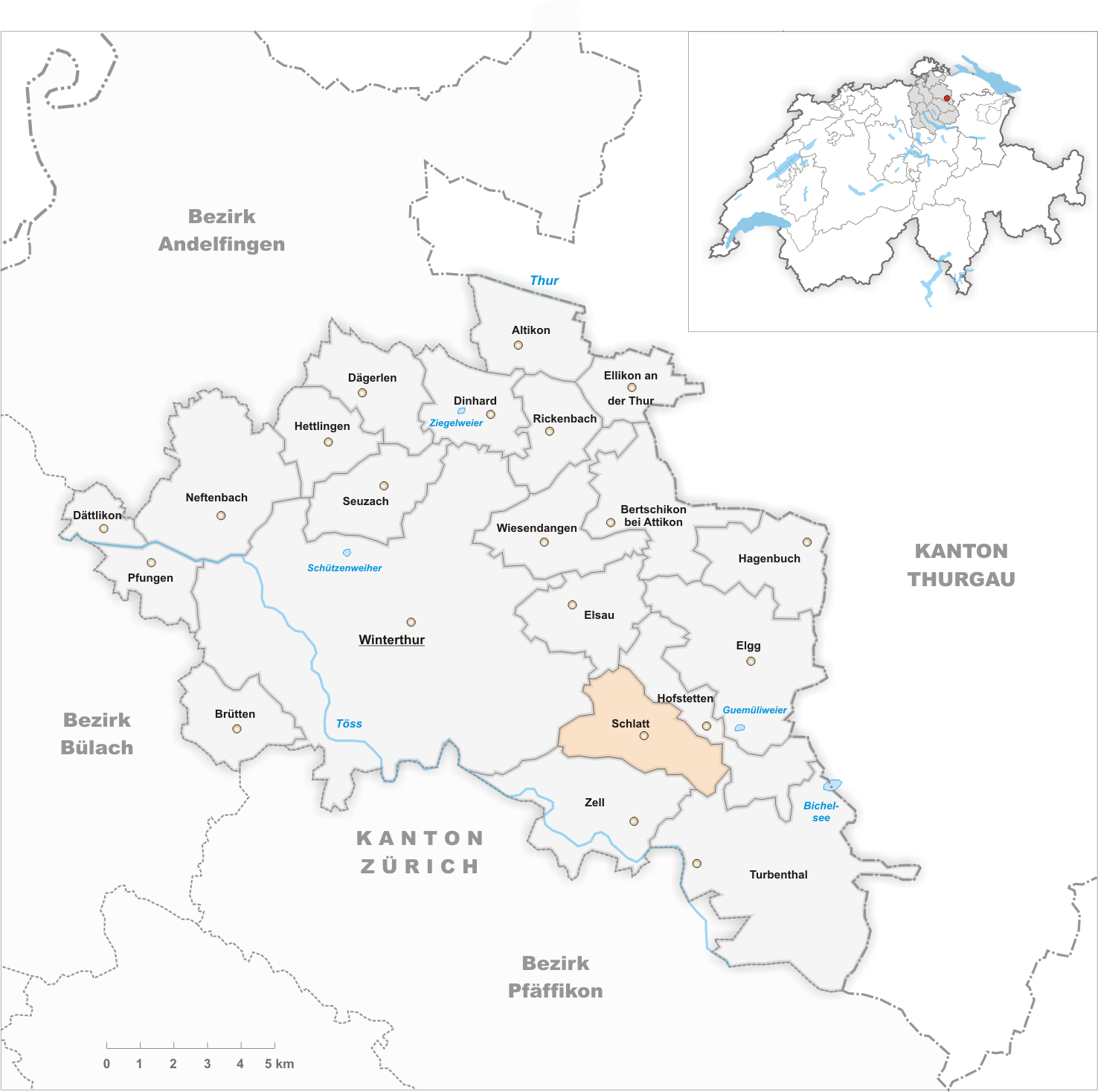 Municipality Schlatt